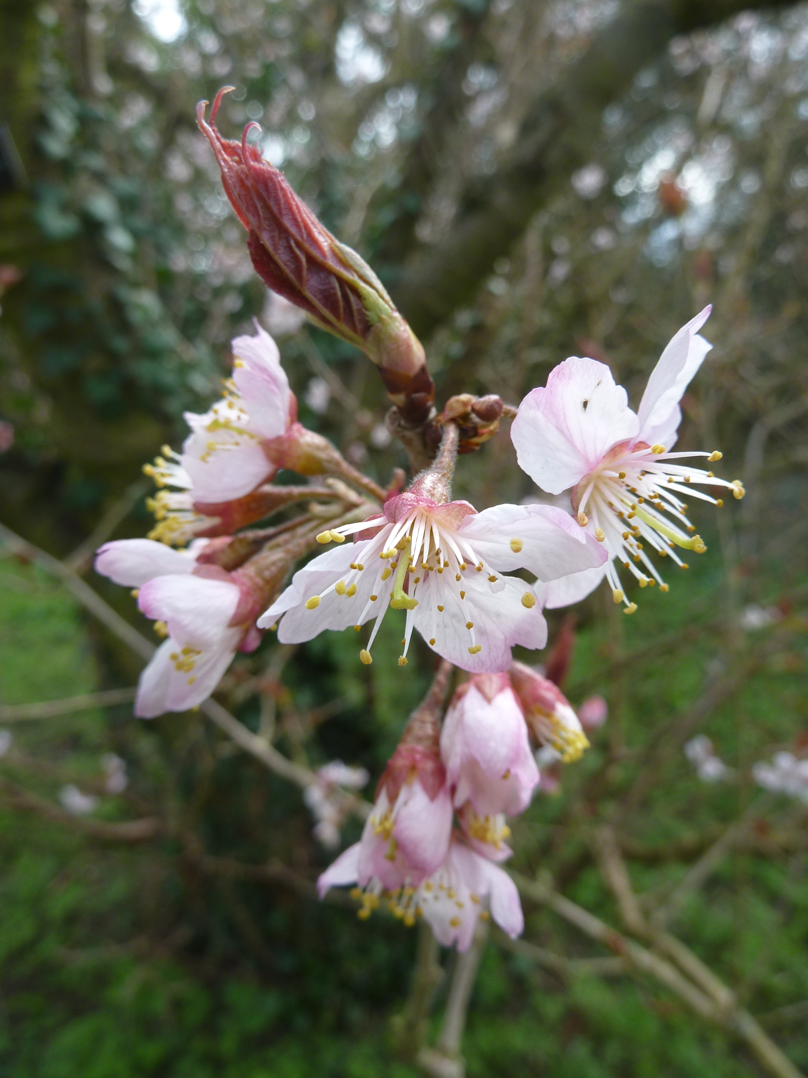 Taken in the Cambridge University Botanic Garden.